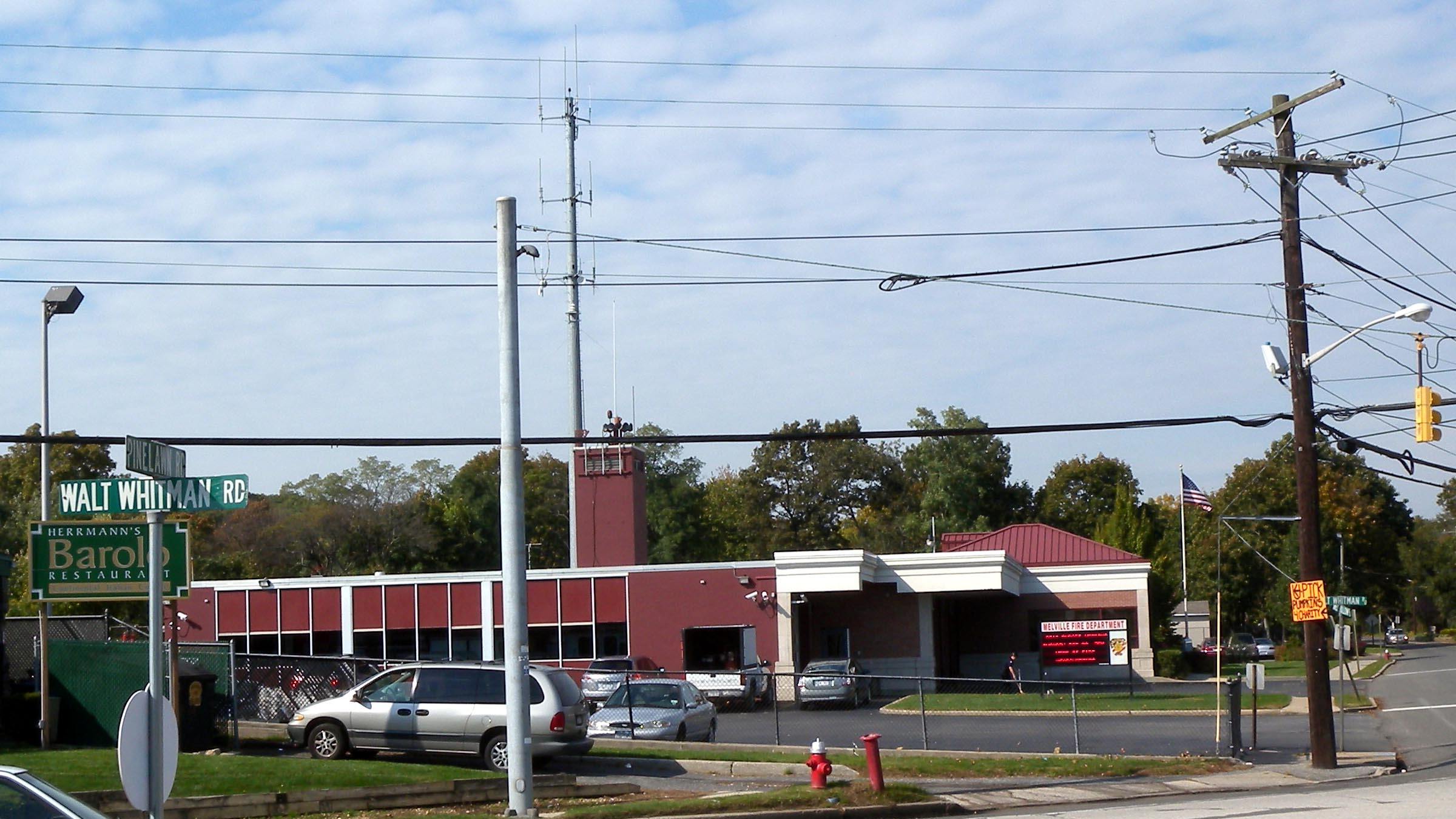 Looking northwest at Melville, New York firehouse